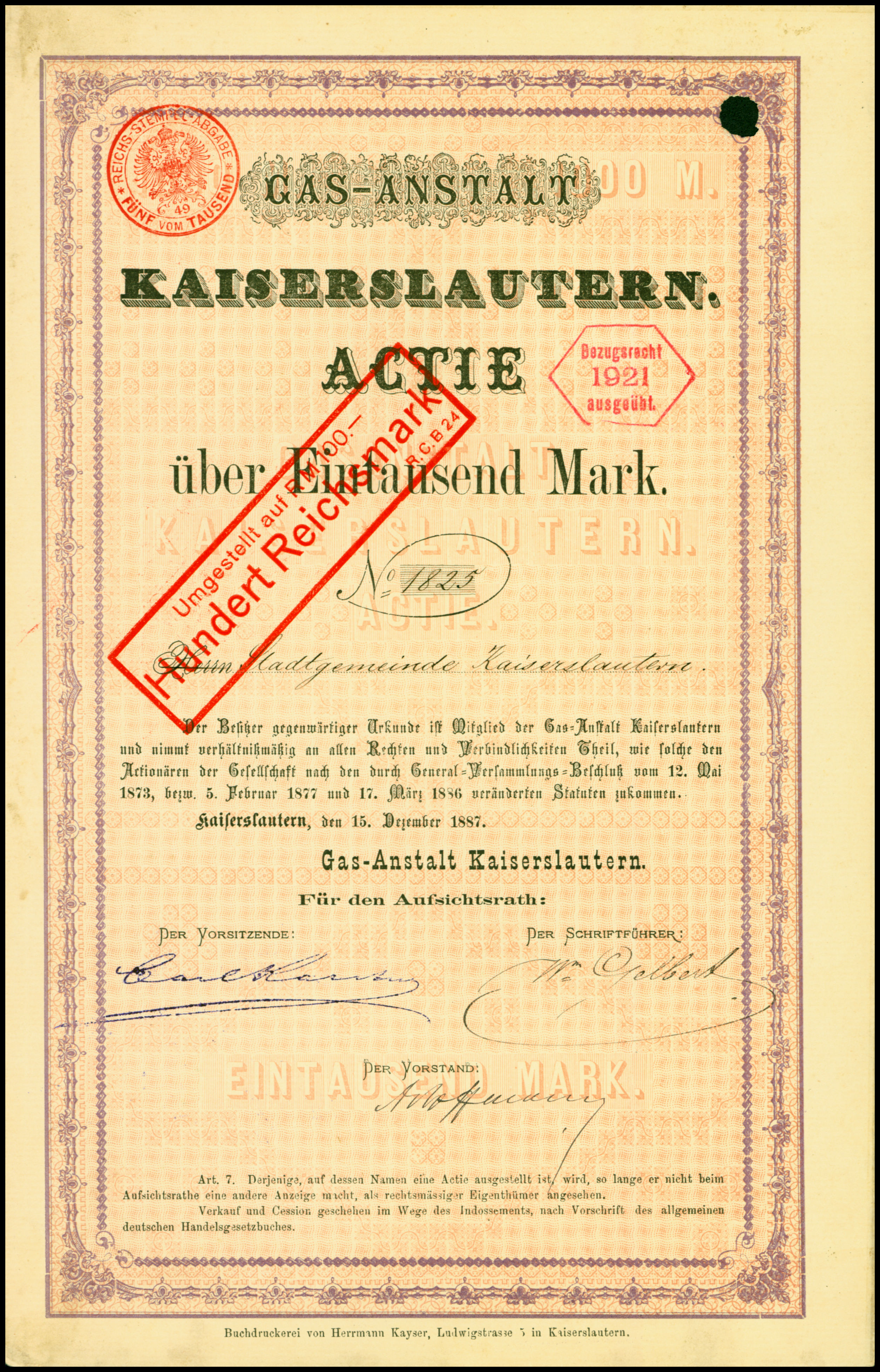 Share of the Gas-Anstalt Kaiserslautern, issued 15. December 1887